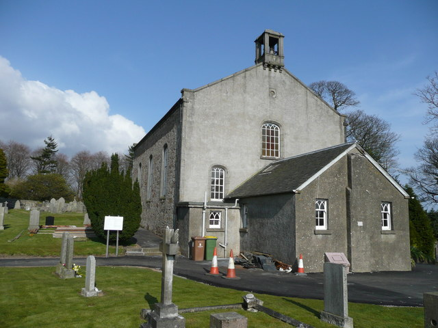 Muckhart Parish Church Serving the village of Pool of Muckhart and the eastern end of Clackmannanshire.